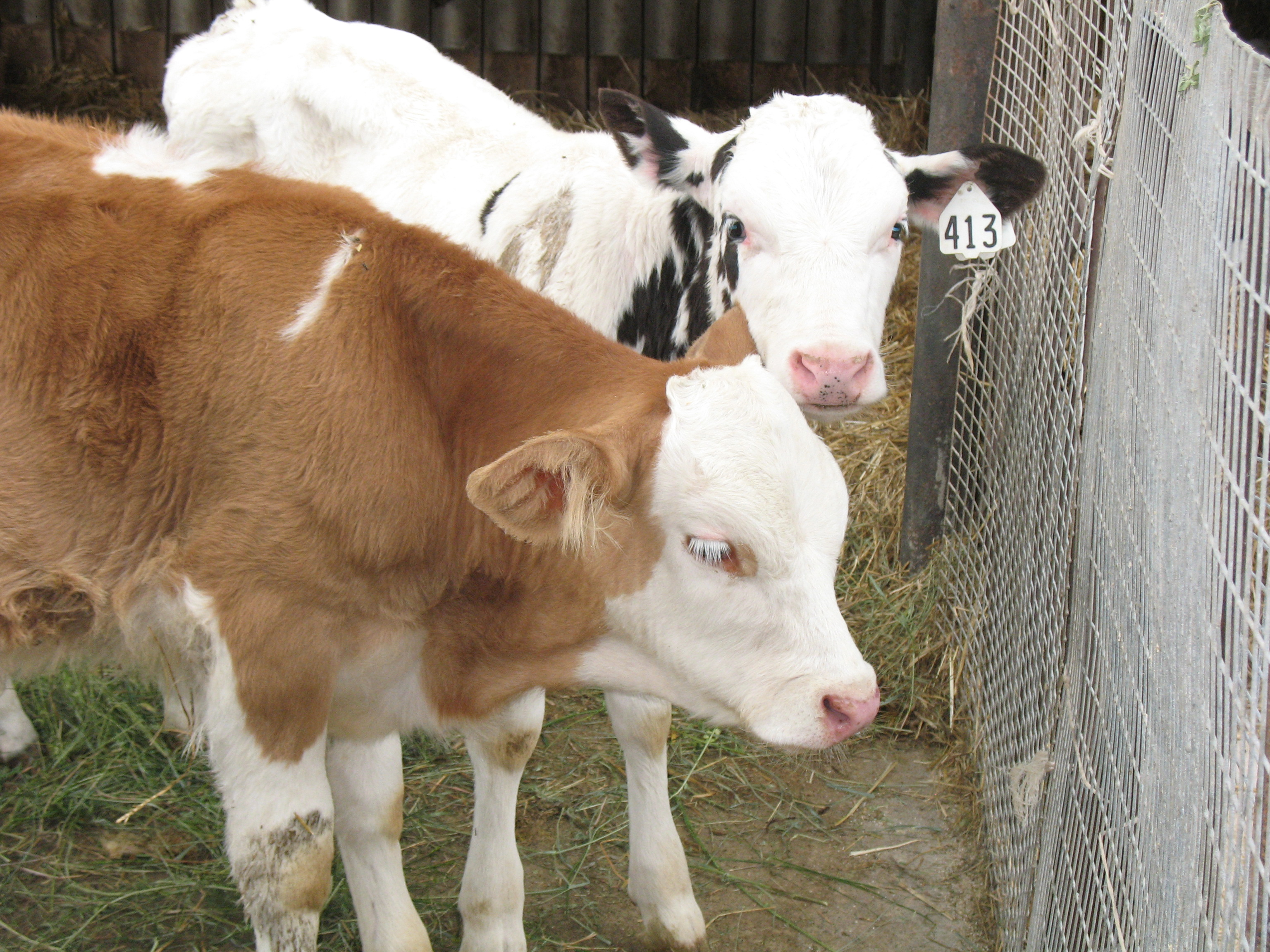 Baby calves.